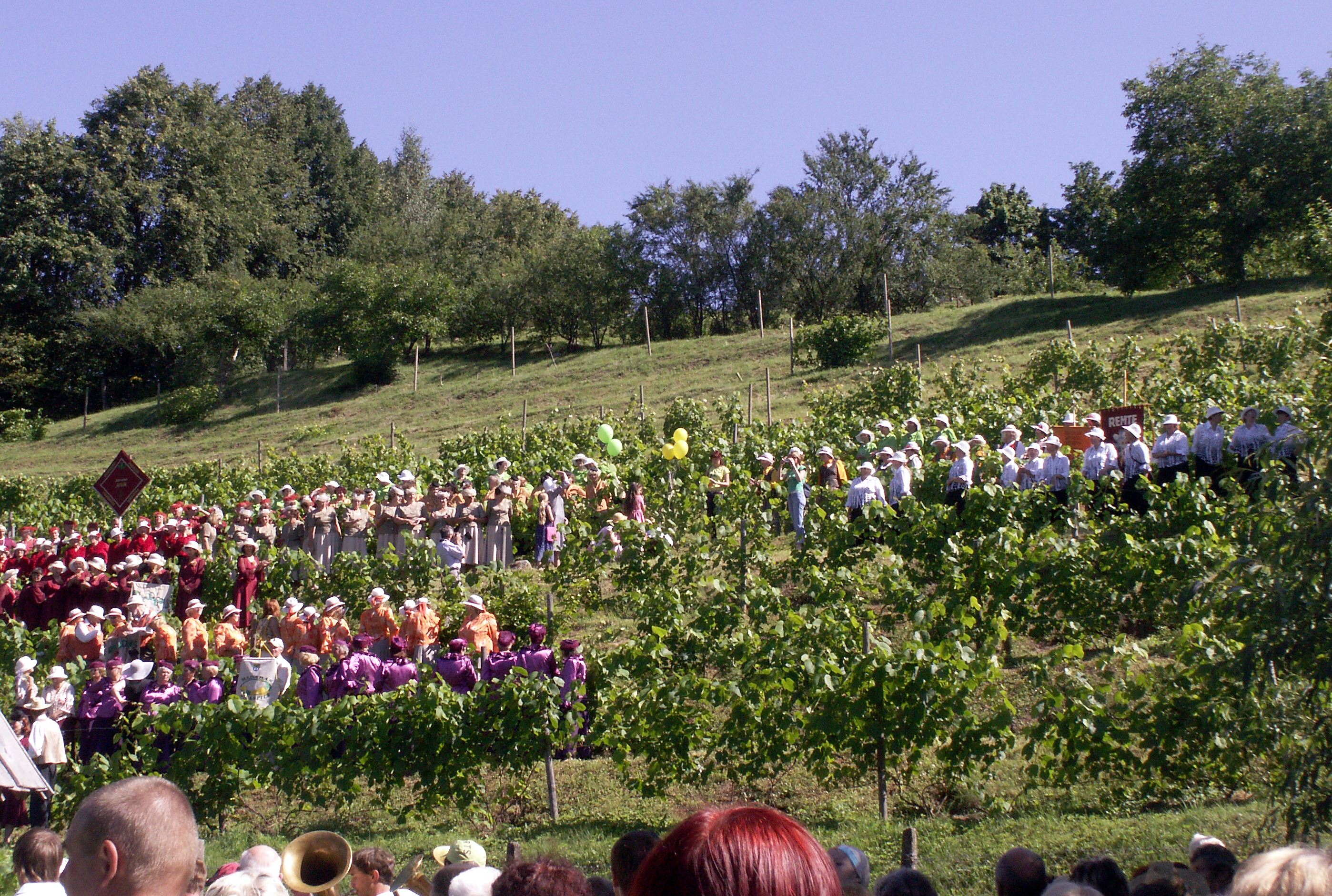 Wine festival in Sabile, Latvija